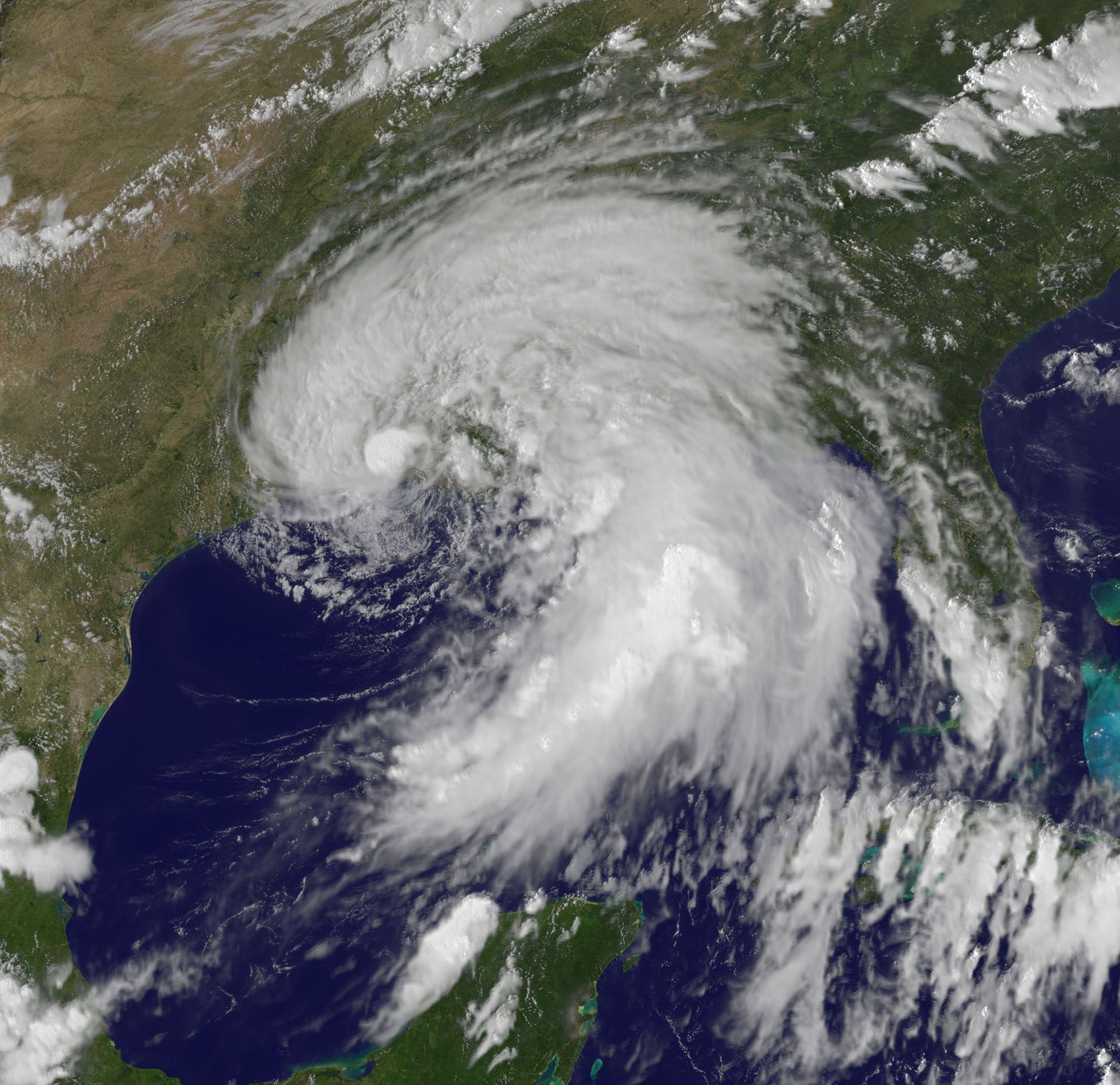 View of Tropical Storm Lee from the Goes-13 East NASA satellite on 3 September 2011 at 2145 UTC.